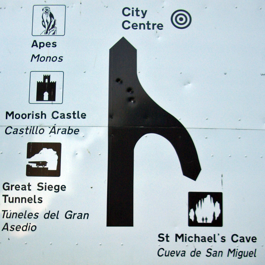 Bilingual sign in the Upper Rock Nature Reserve, Gibraltar.